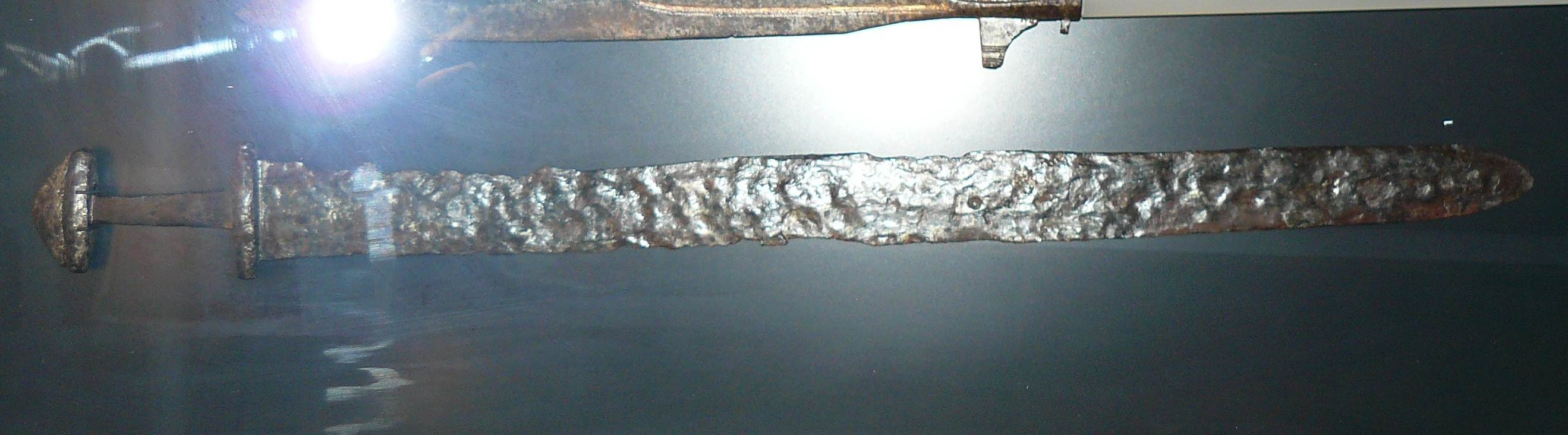 Replica of carolingian spatha (damast steel); early 8th century, from Weismain (Grave 3), Upper Frankonia, Germany; Archäologiemuseum Oberfranken, Forchheim